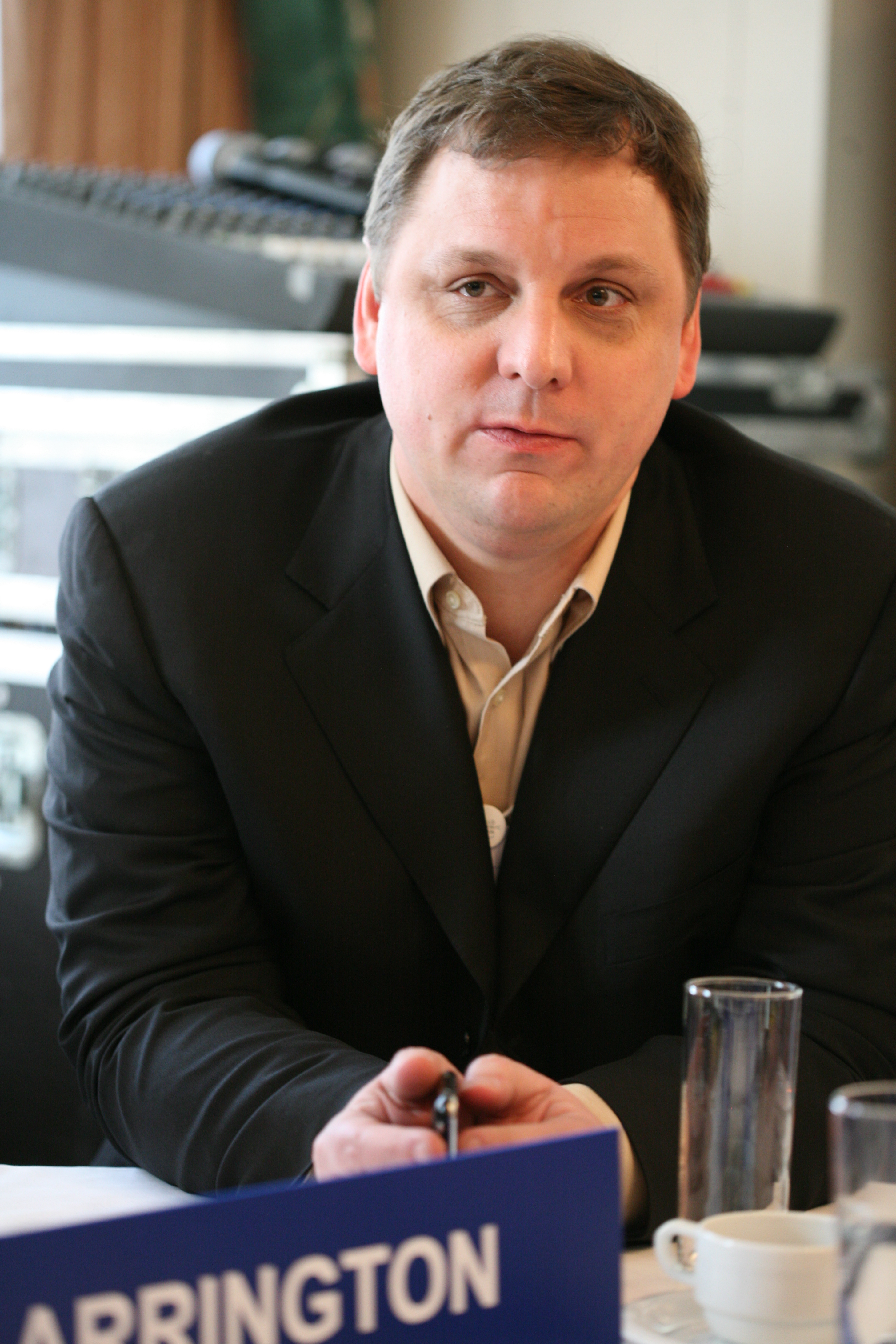 Pictures from the World Economic Forum 2009 in Davos, Switzerland.